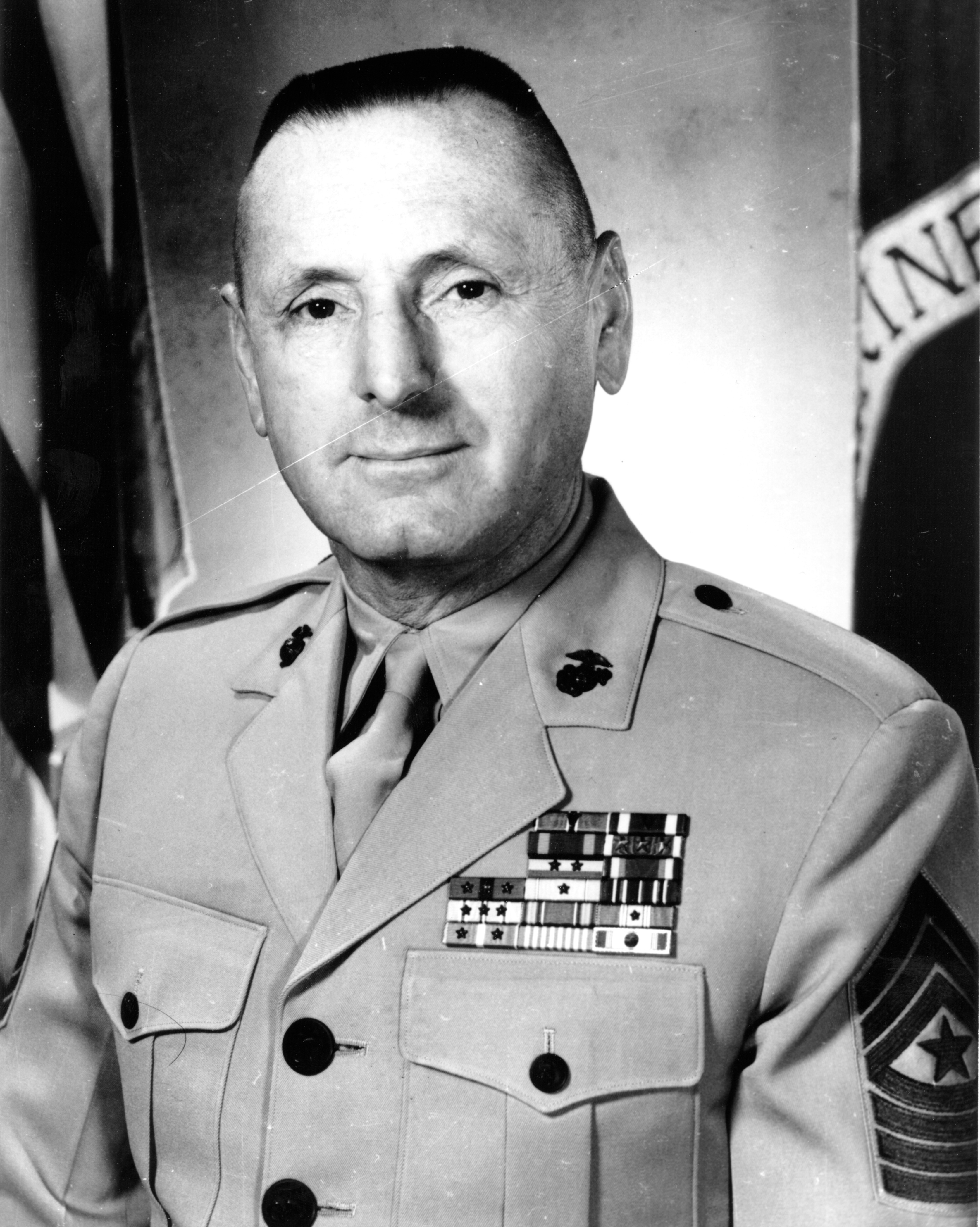 Sergeant Major Herbert J. Sweet, USMC. 4th Sergeant Major of the Marine Corps. Photograph by U.S. MARINE CORPS